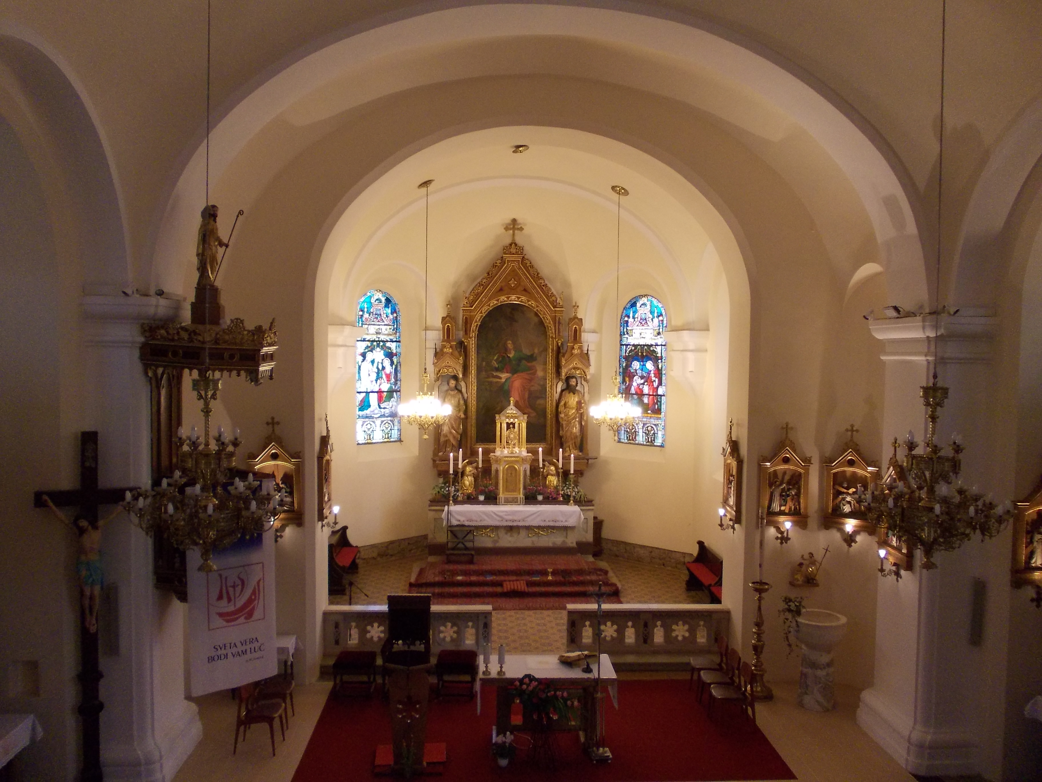 Saint John the Evangelist Church, Krško